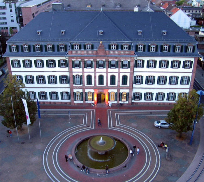 Government building of Regierungspräsidium Darmstadt